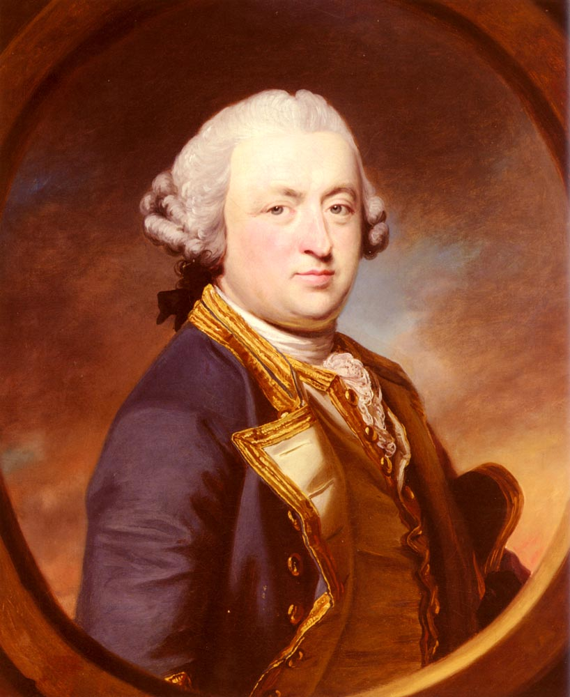 Portrait Of Admiral Thomas Craven